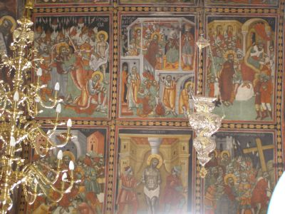 The Agios Ioannis church in Nicosia, Cyprus - southern (Greek) part